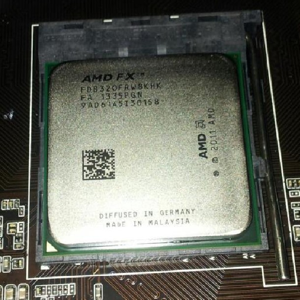 AMD FX-8320 CPU